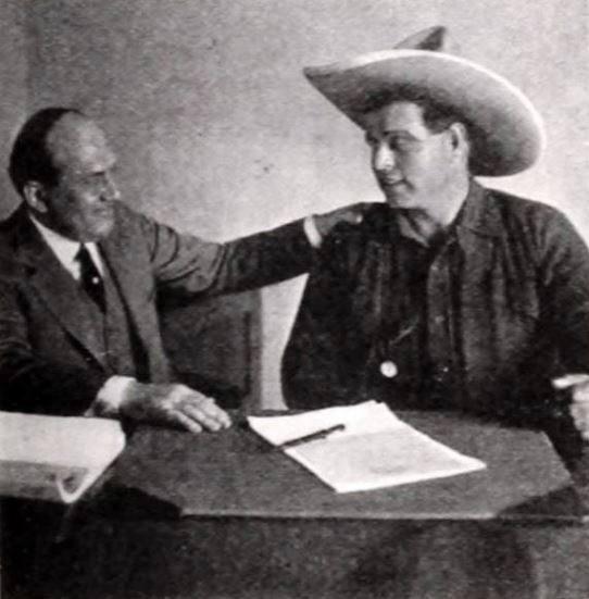 Film producer Anthony J. Xydias and actor Jack Hoxie, on page 39 of the May 6, 1922 Exhibitors Herald. Xydias was president of Sunset Productions, which went on to produce several films with Hoxie.